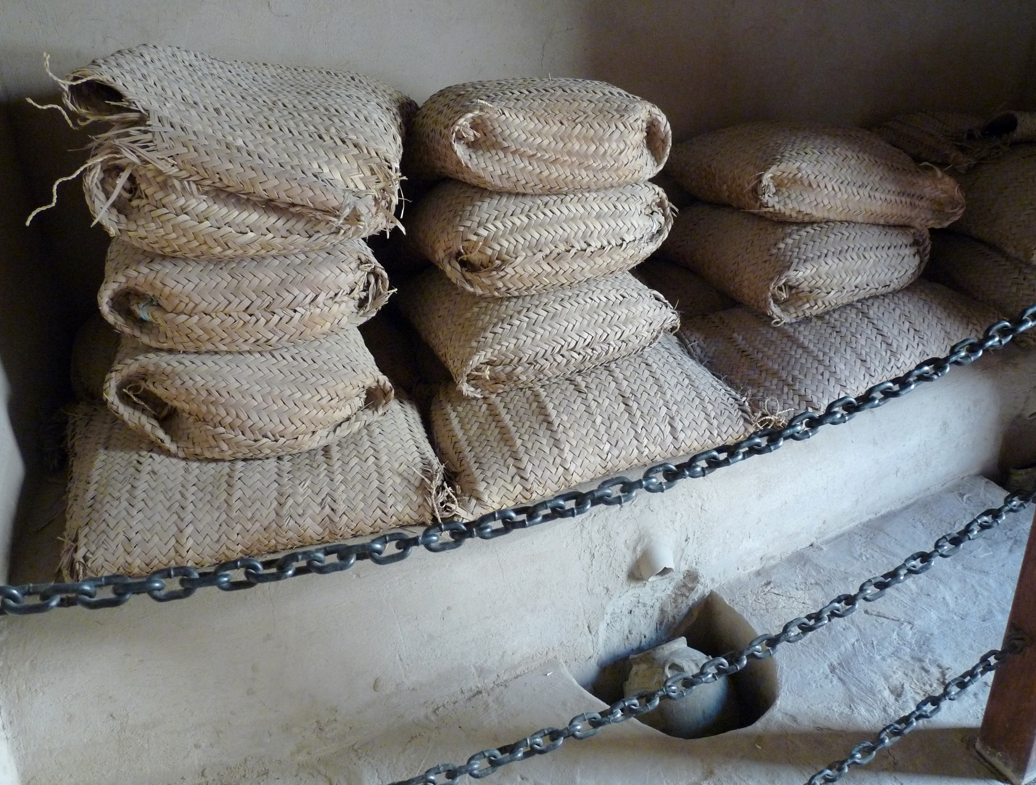 Nizwa Fort (Oman) : Date sacks